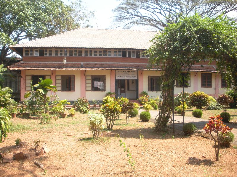 V. K. Krishna Menon Museum, East Hill, Kozhikode